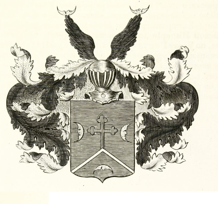 Coat of Arms of the Turchaninovs